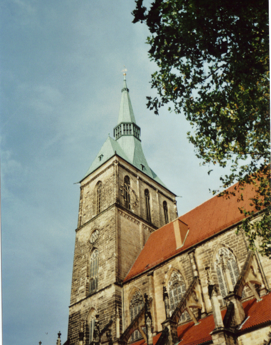 Saint Andrew's Church in Hildesheim